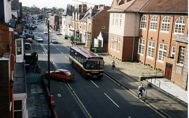 Queens Road, Leicester Another view of Queens Road, this time with a Citybus in shot.